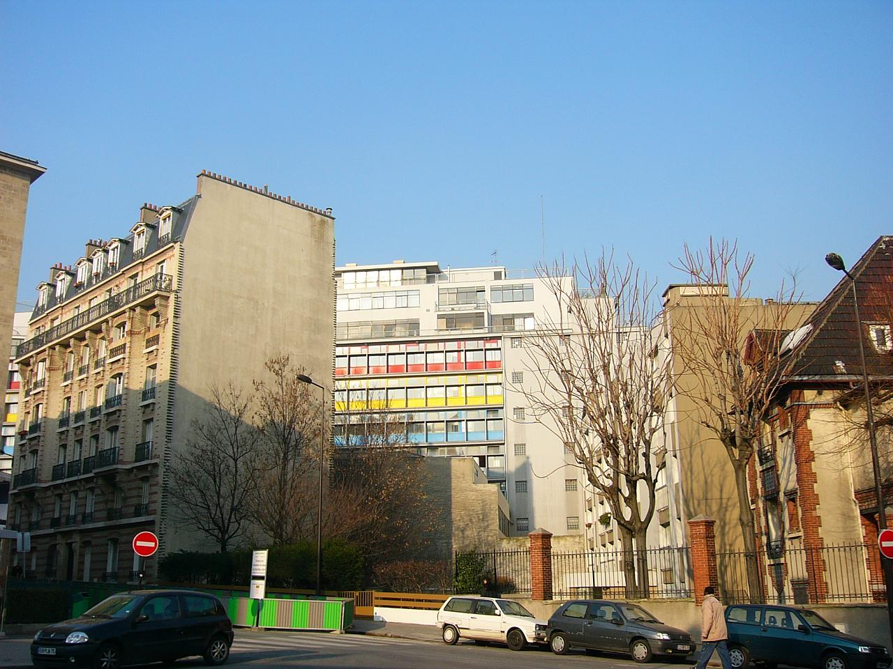 Le Corbusier- Salvation Army Hostel, 1931-33